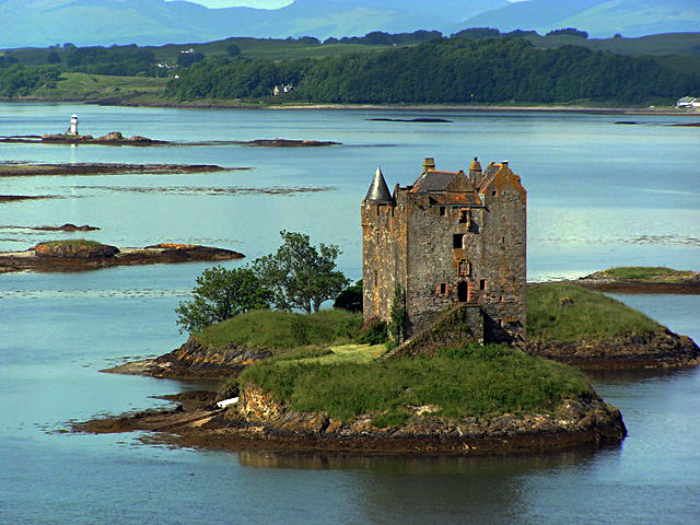 Castle Stalker. View of Castle Stalker with Lismore Island behind taken from the A828.